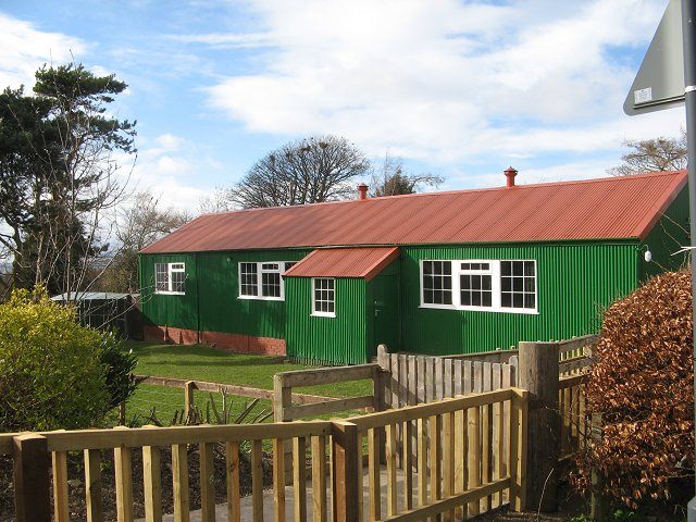 Hall, Cousland Freshly painted - presume it's the village hall.